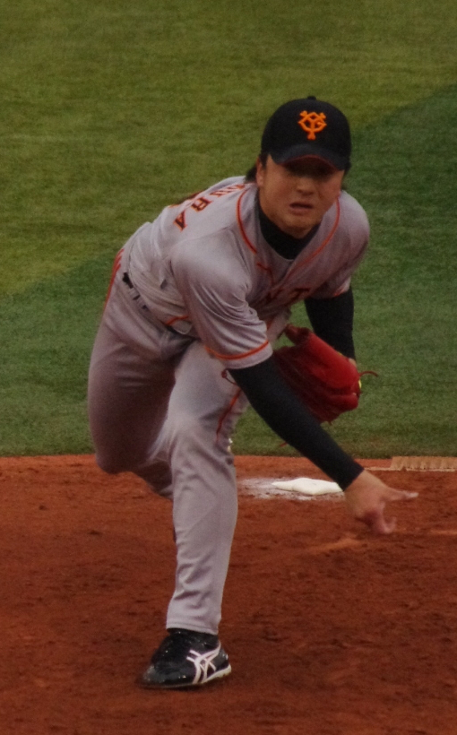 Hirokazu Sawamura, pitcher of the Yomiuri Giants, at Yokohama Stadium.